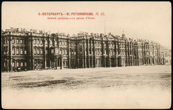 Saint Petersburg (Russia), Palace Square.